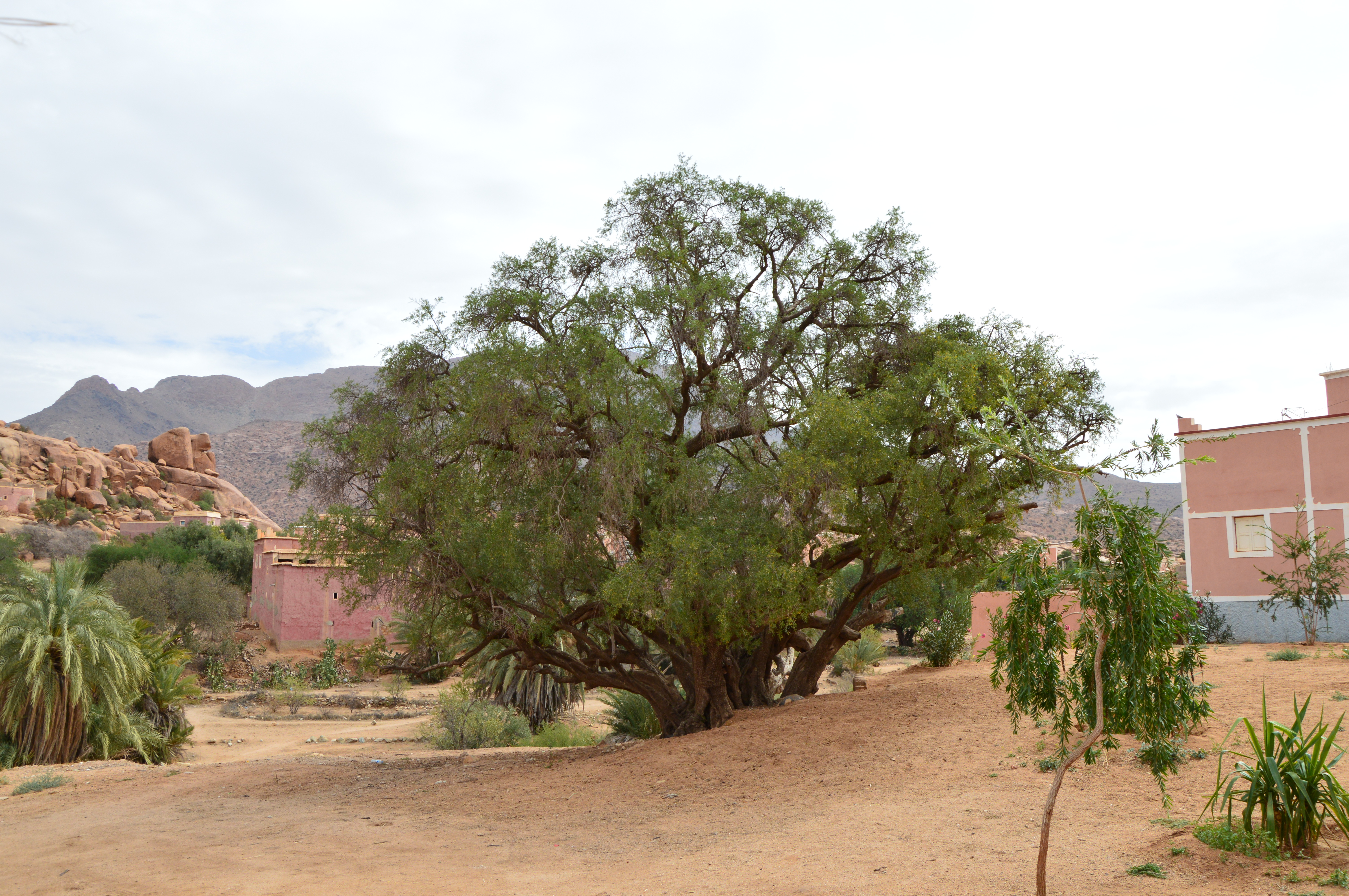 An argan tree in Anti-Atlas